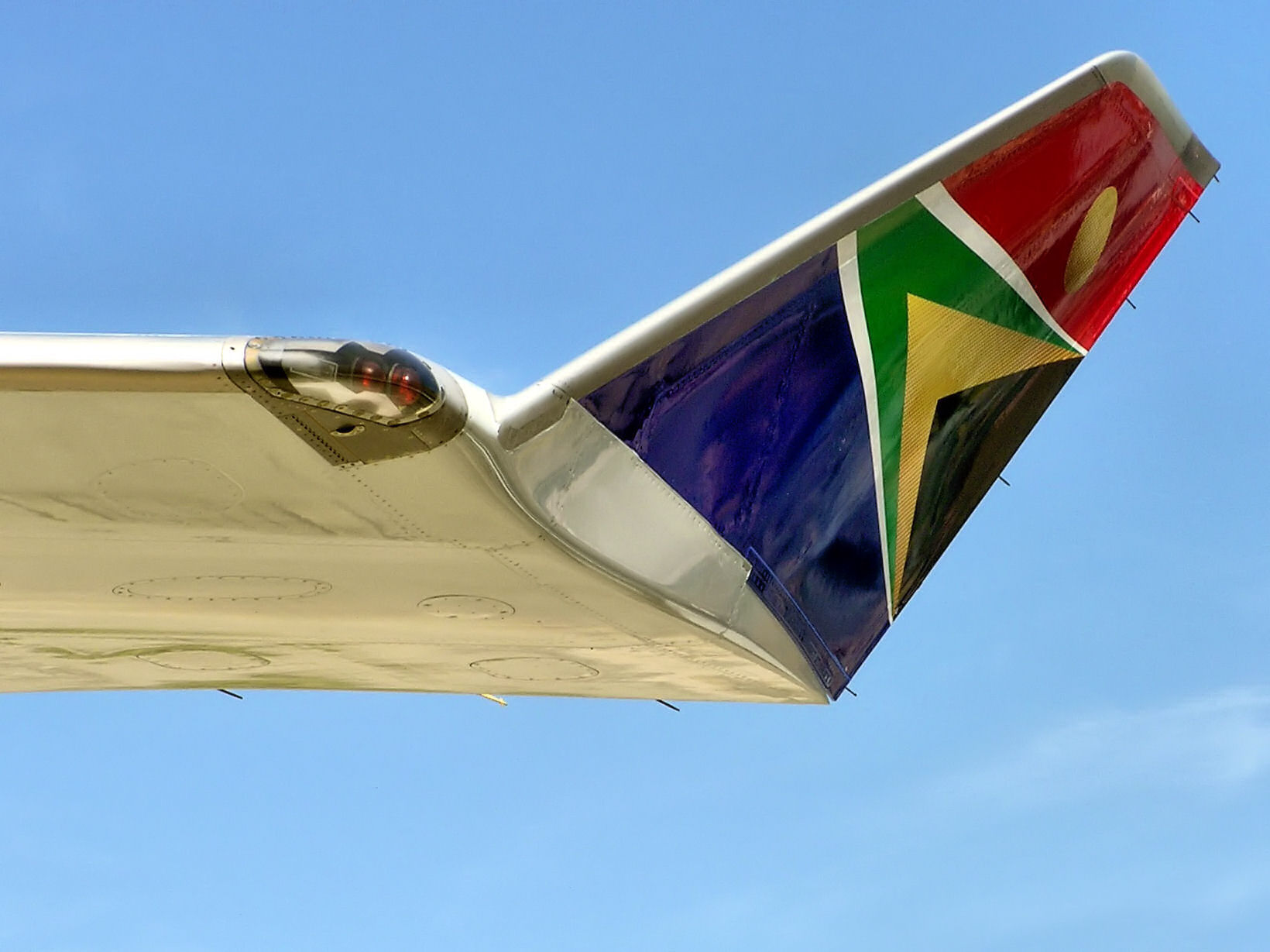 South African Airways Boeing 747-400 (ZS-SAY) parked at London Heathrow Airport, England, showing the winglet and the red navigation light, on the port (left) wing.